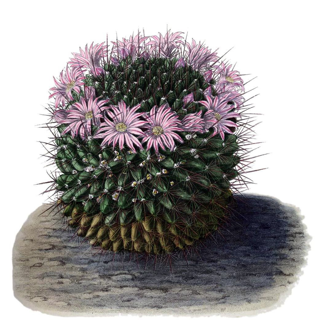 Mammillaria melanocentra